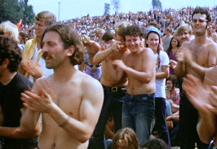 Part of the crowd on the first day of the Woodstock Festival